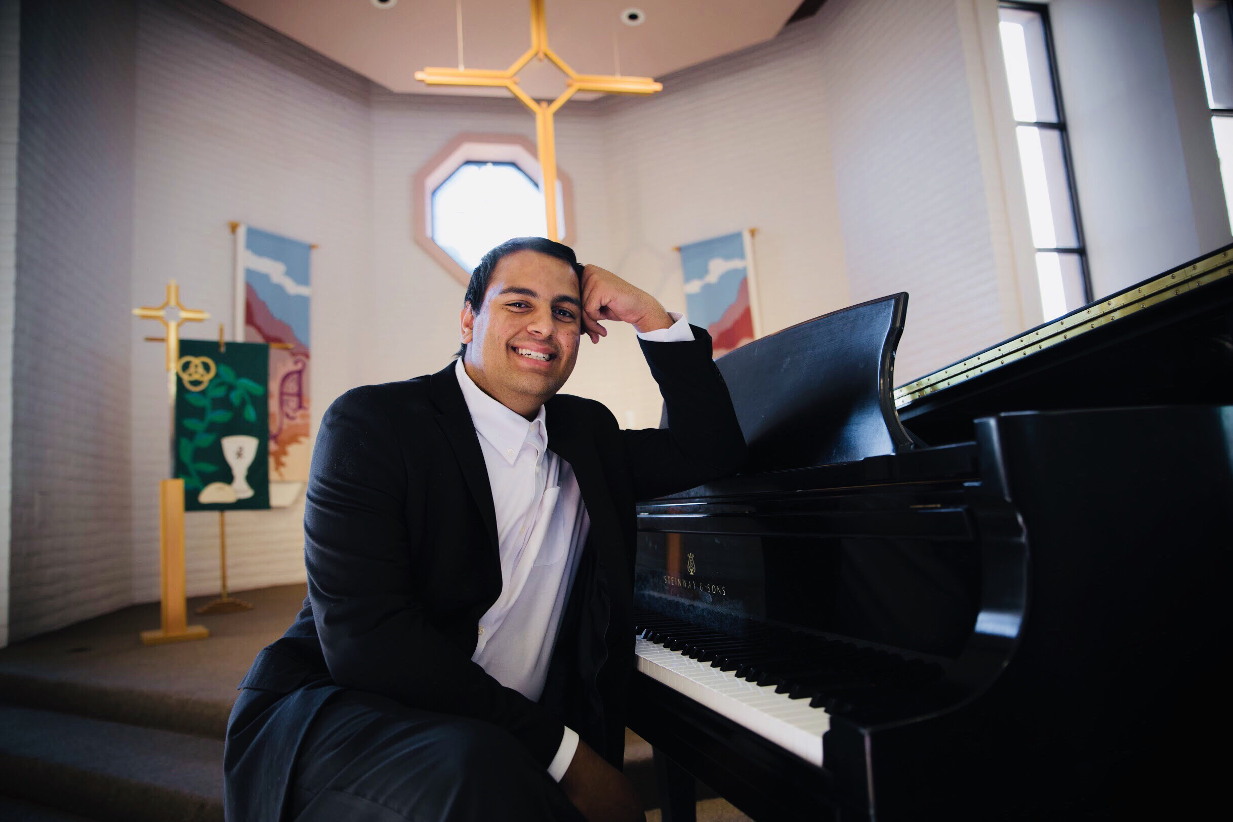 Picture of Jacob Soulliere